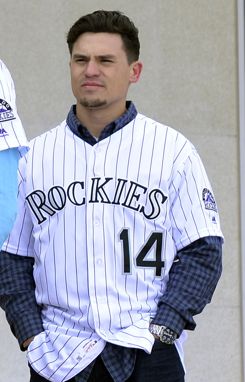 Colorado Rockies players visit the U.S. Air Force Academy in Colorado Springs, Colo. on Jan. 24, 2017.